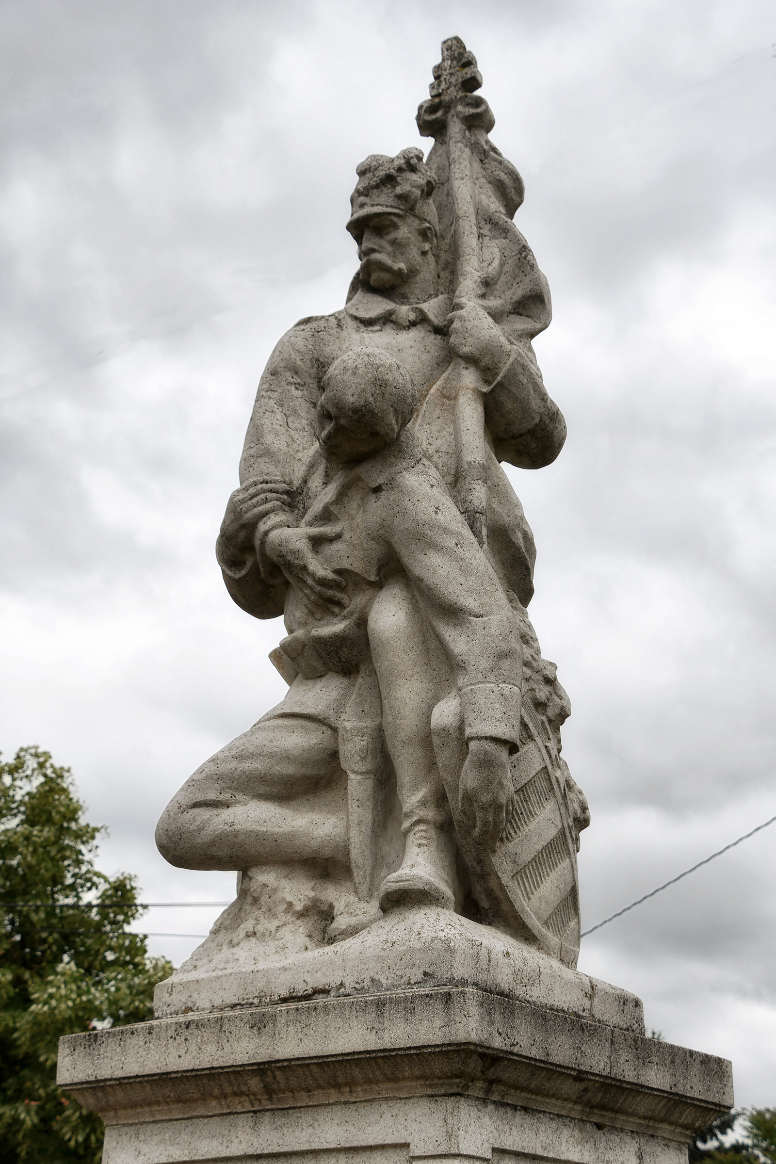 The memorial of the world wars in Abda, Hungary